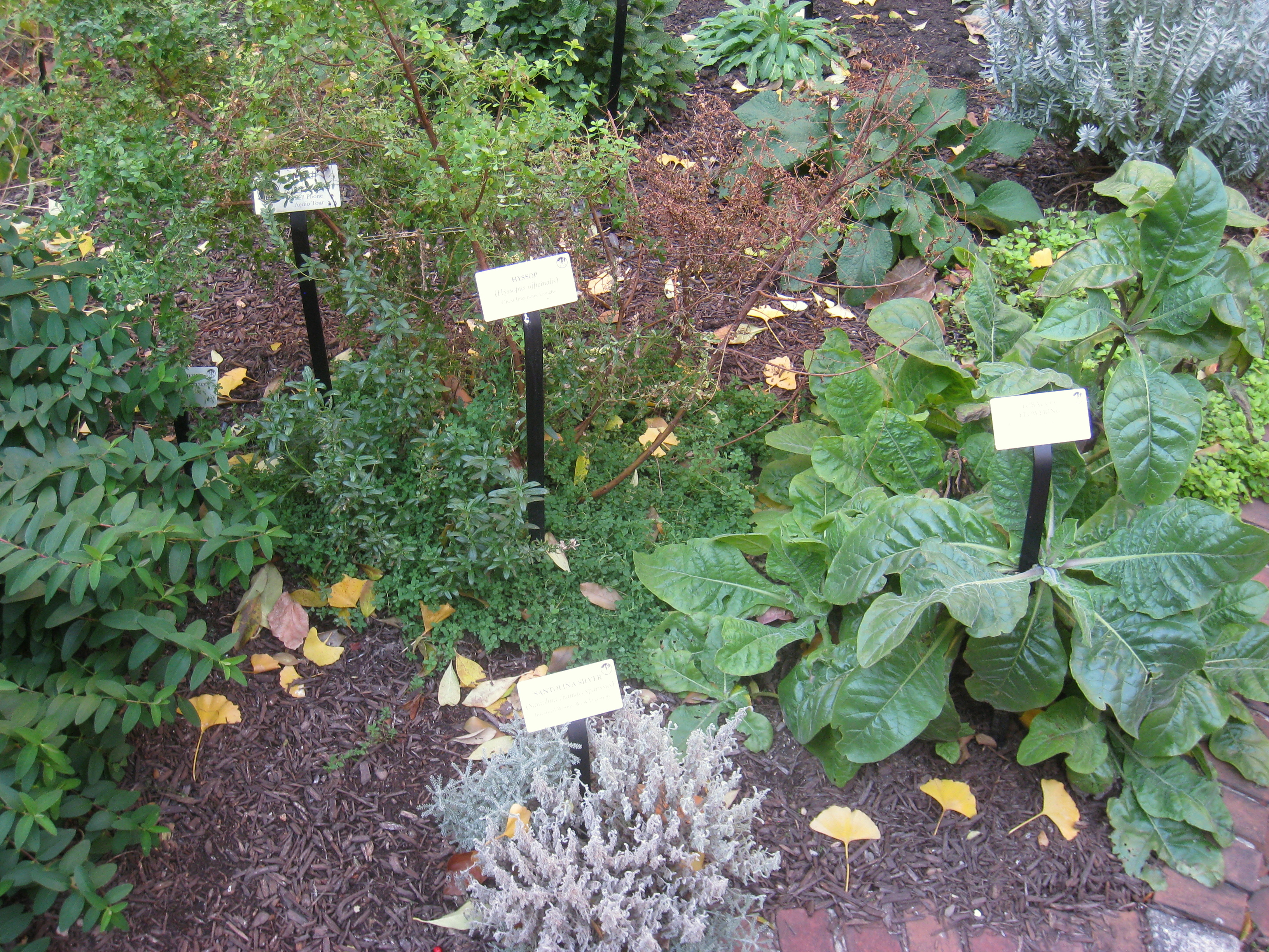 Benjamin Rush Medicinal Plant Garden, at the College of Physicians of Philadelphia, 19 S. 22nd St. Philadelphia , Pennsylvania, USA.